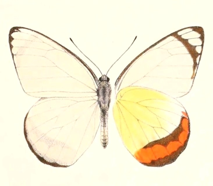 « Delias euphemia » = Delias euphemia - male